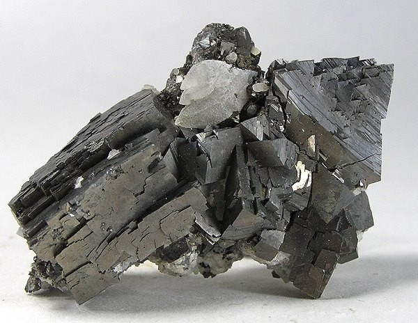 Arsenopyrite Locality: Hidalgo del Parral, Municipio de Hidalgo del Parral, Chihuahua, Mexico (Locality at ) Size: 5.8 x 3.4 x 2.4 cm. The profusion of arsenos from China has overshadowed good specimens from other countries, which remain quite desirable. This is an old Chihuahua piece out of the collection of Scott Williams -- as you can see, showing superb sharp crystal form and luster!